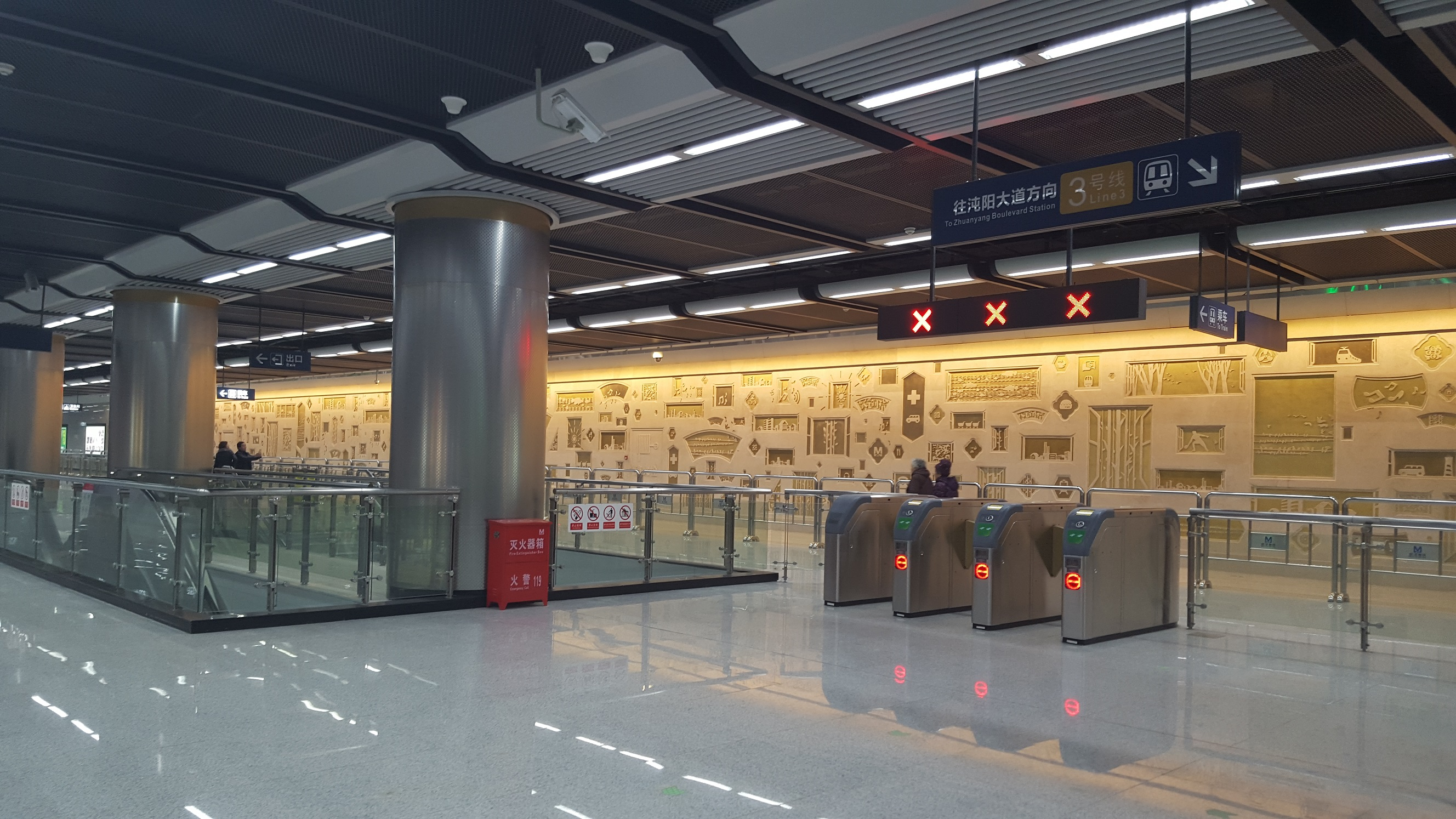 Concourse of Hongtu Boulevard Station, Wuhan Metro